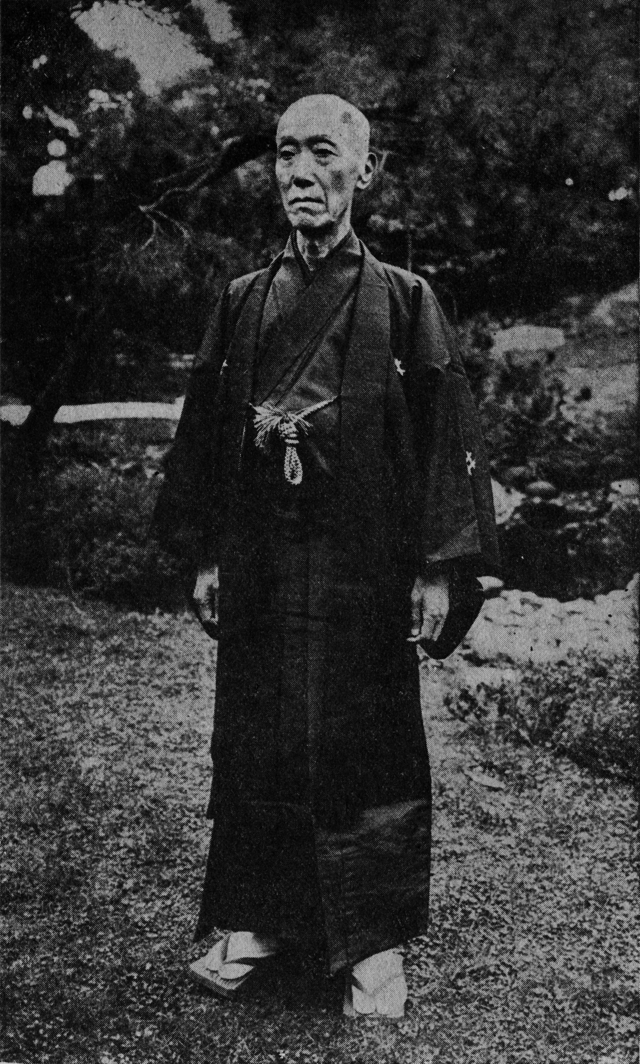 Japanese Noh actor HOSHO Kuro Tomohide